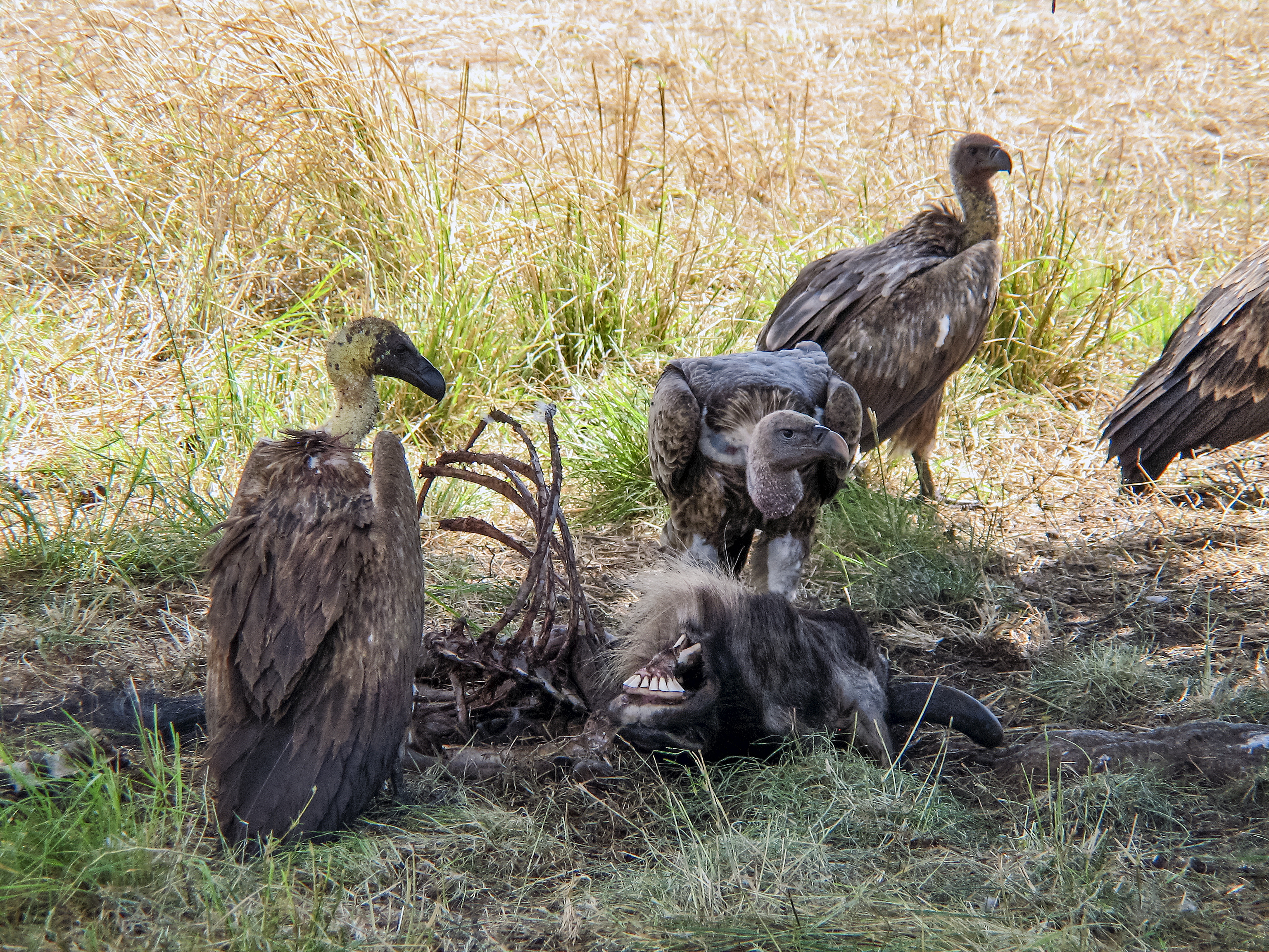 White-backed vultures (Gyps africanus) feed on a carcass of a wildebeest in Masai Mara National Park, Kenya